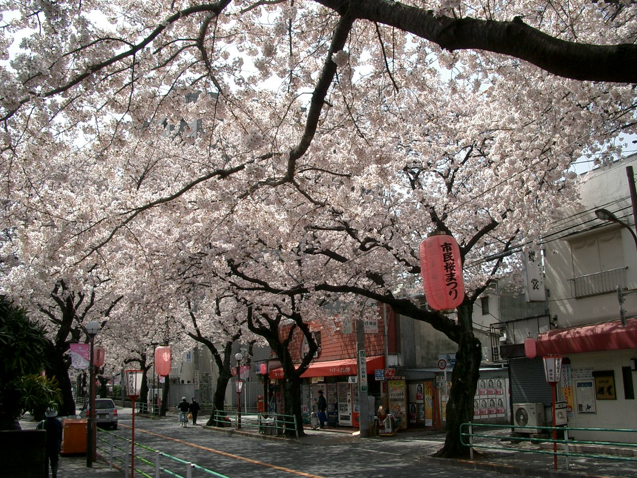 View of cherry blossoms in Fuchu-Koen-Dori, Fuchu-city, Tokyo, Japan. ja: 東京都府中市府中公園通りの桜